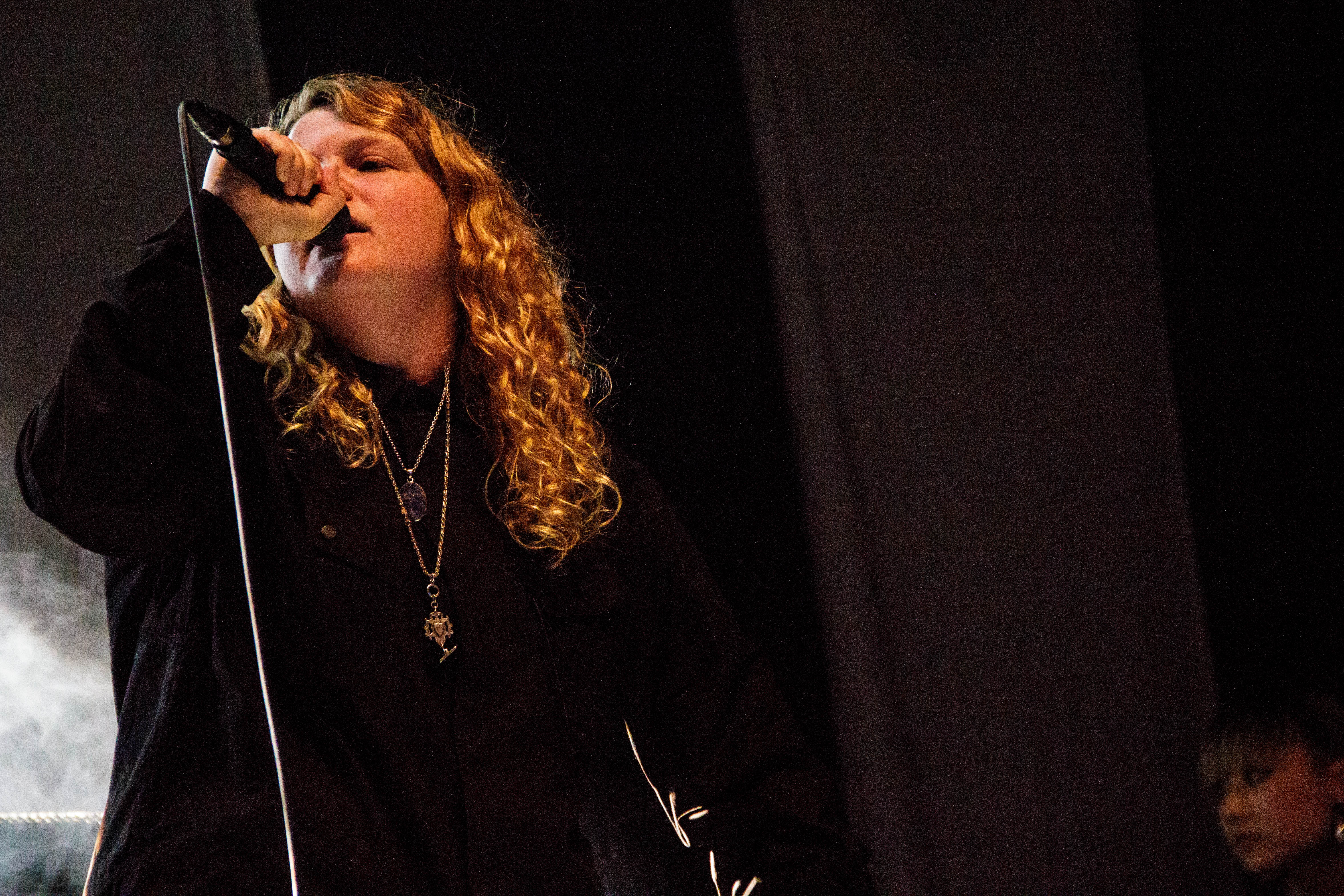 Kate Tempest at Haldern Pop Festival 2017